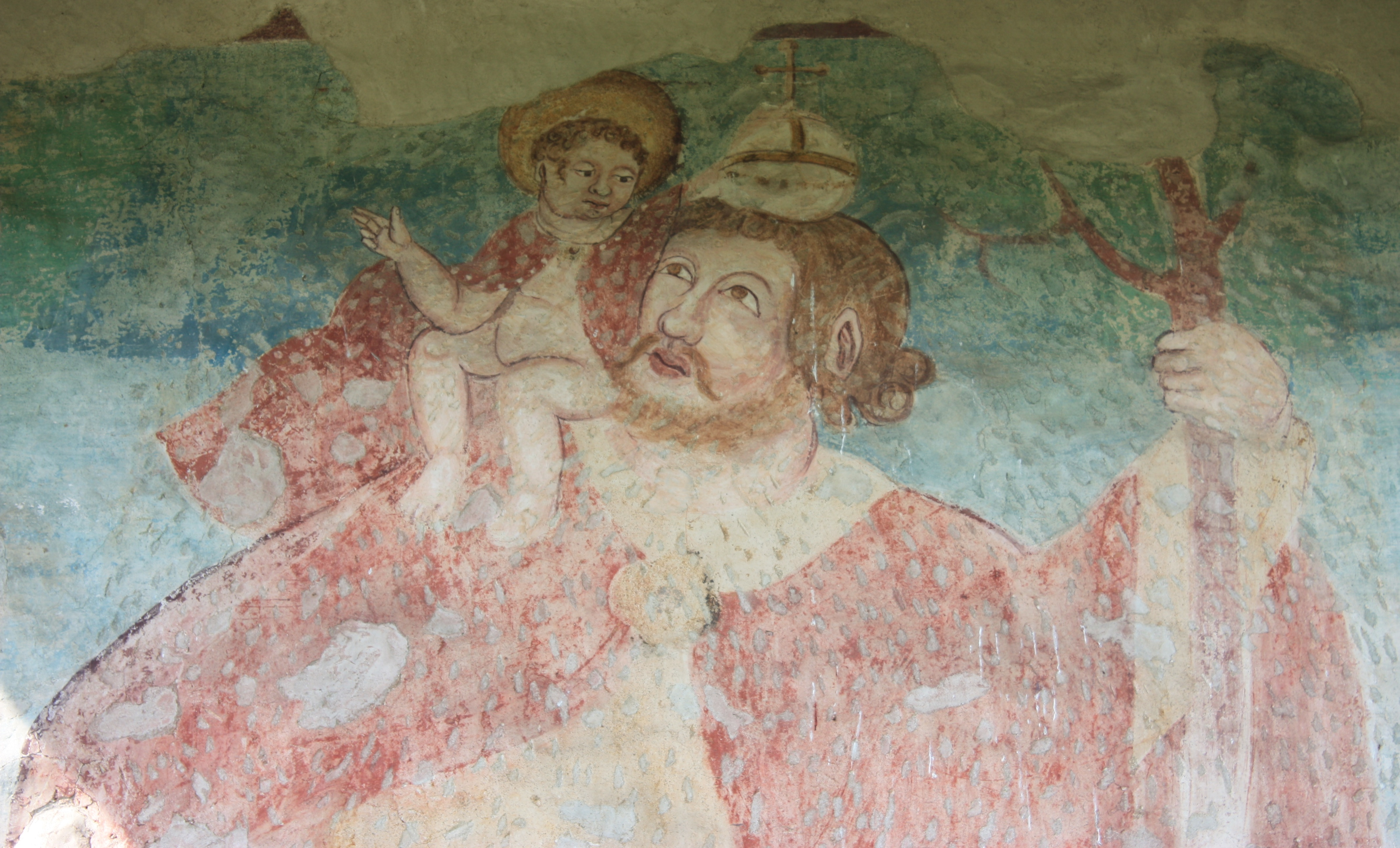 Subsidiary church "Saint Sebastian" - Saint Christopher Locality: Aich/Dob Community:Bleiburg